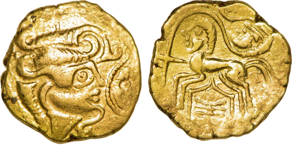 Statère d'électrum à la tente et à la tête coupée frappé par les Osismes Date : c. 80-50 AC.